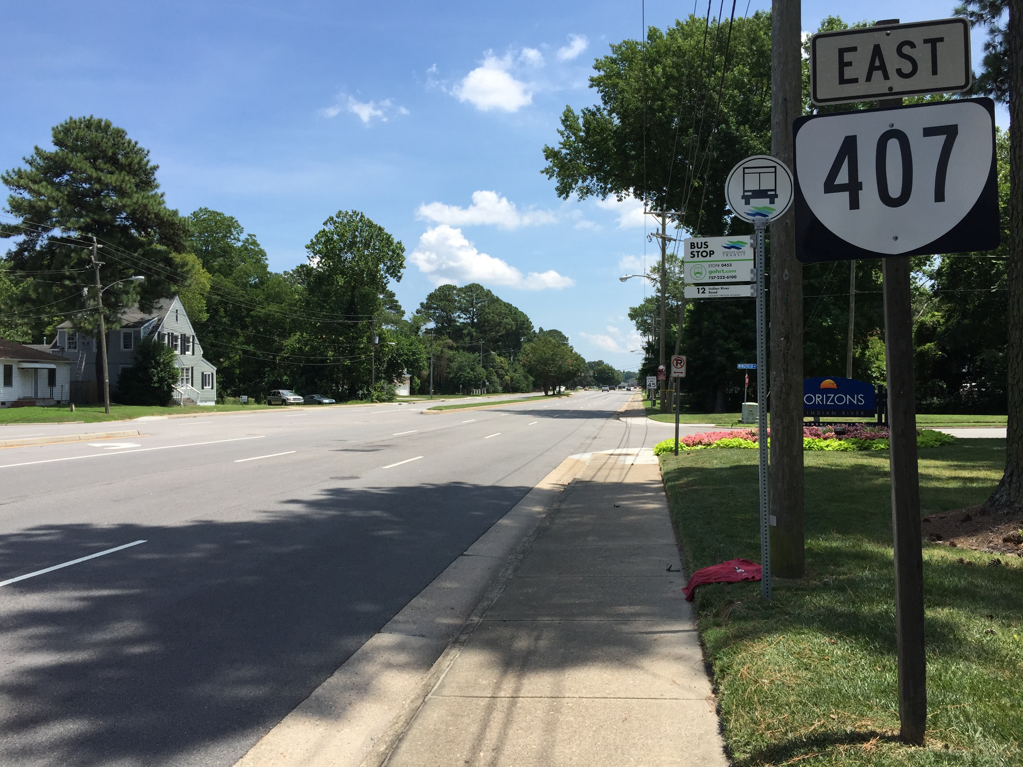 View east along Virginia State Route 407 (Indian River Road) at Wingfield Avenue in Chesapeake, Virginia